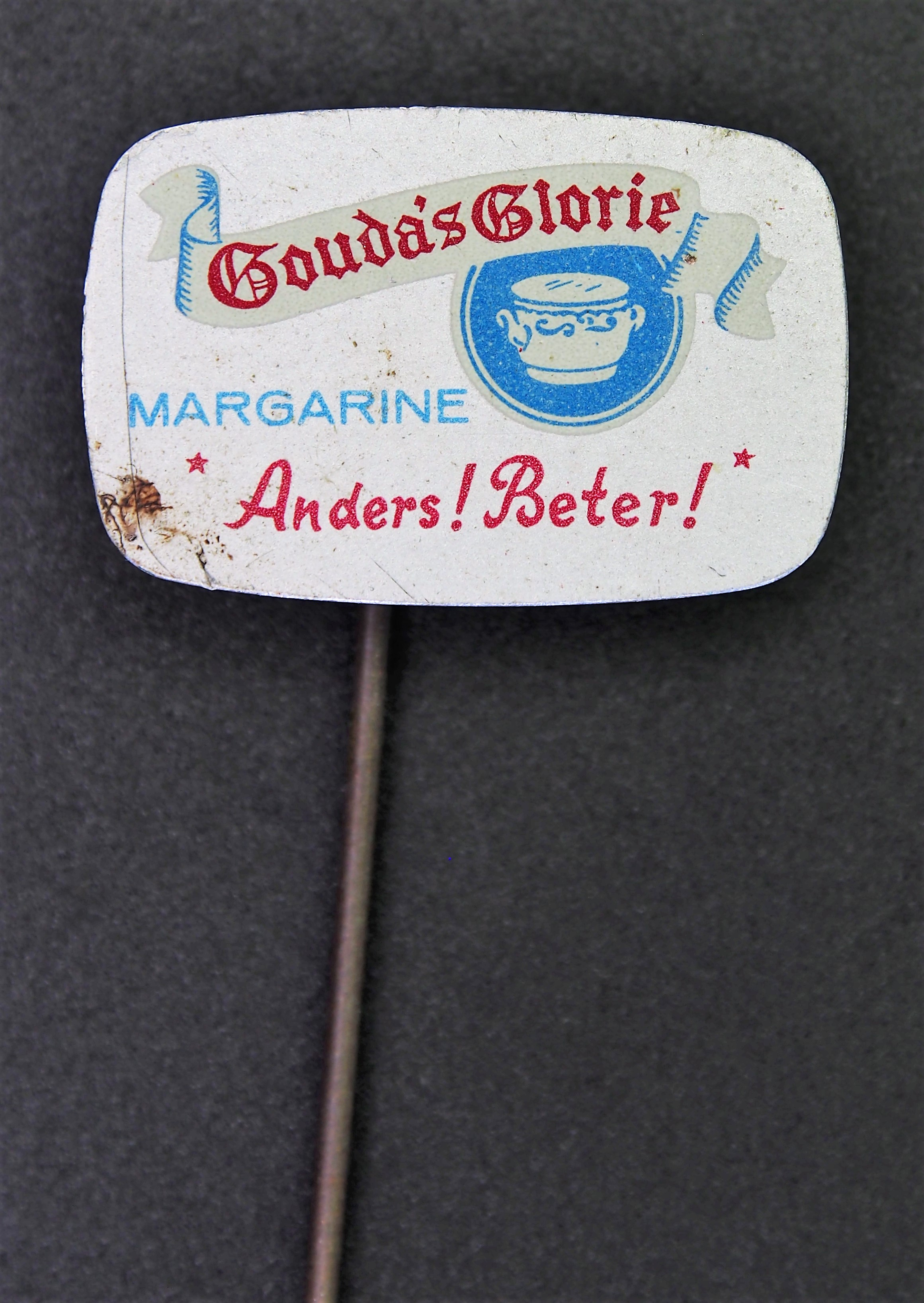 Advertising pin of an old (Dutch) product or brand.